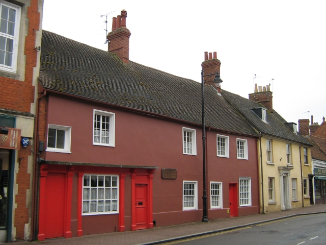 Former Rose and Crown Inn Prince Edward V aged 12 who, accompanied by Sir Richard Grey, stopped here en route from Ludlow to Edward's proposed Coronation in London in June 1483. They stayed overnight at what was then the Rose & Crown Inn and whilst there were captured by Richard, Duke of Gloucester.